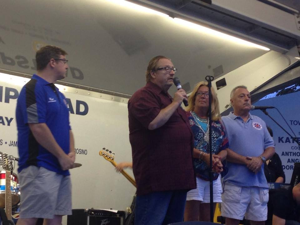 Village Board During Concert